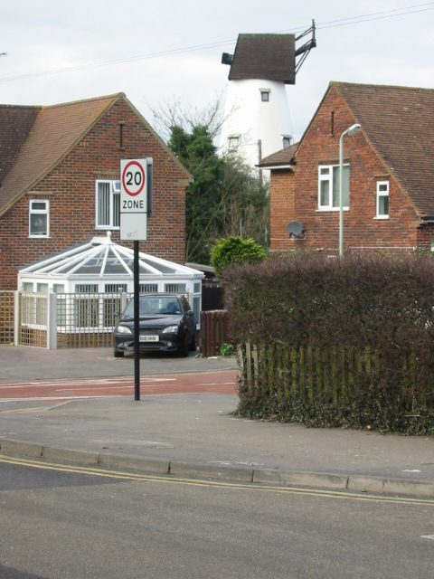 photo of St Martin's windmill, Canterbury